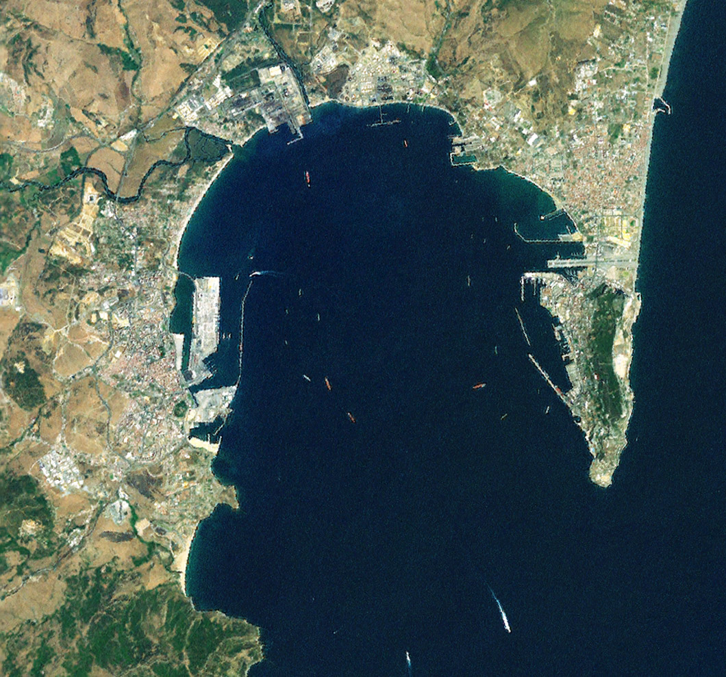 Satellite Picture of the Bay of Gibraltar